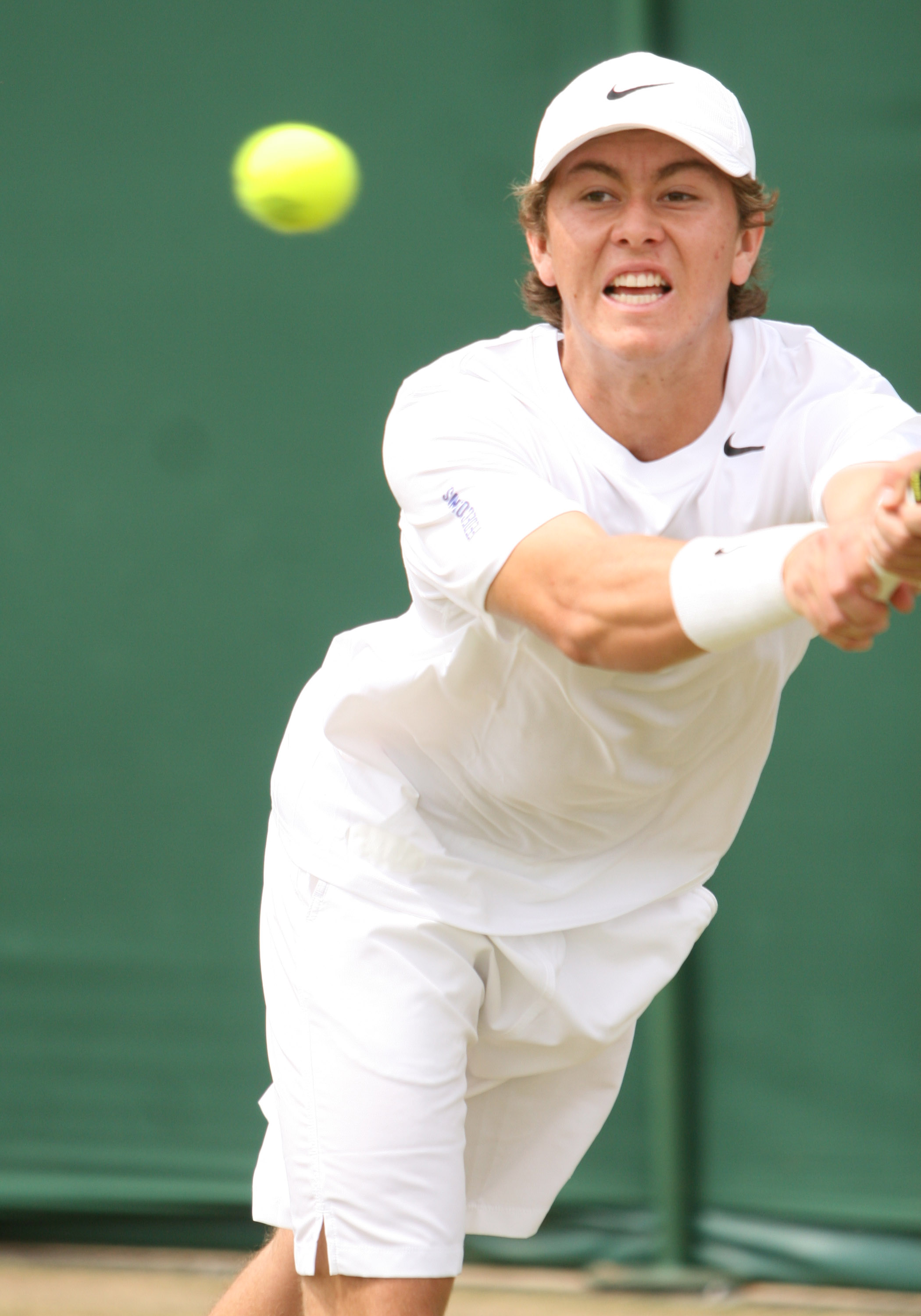 Juan Sebastian Gomez playing in the boys doubles second round at Wimbledon on 1st July 2010